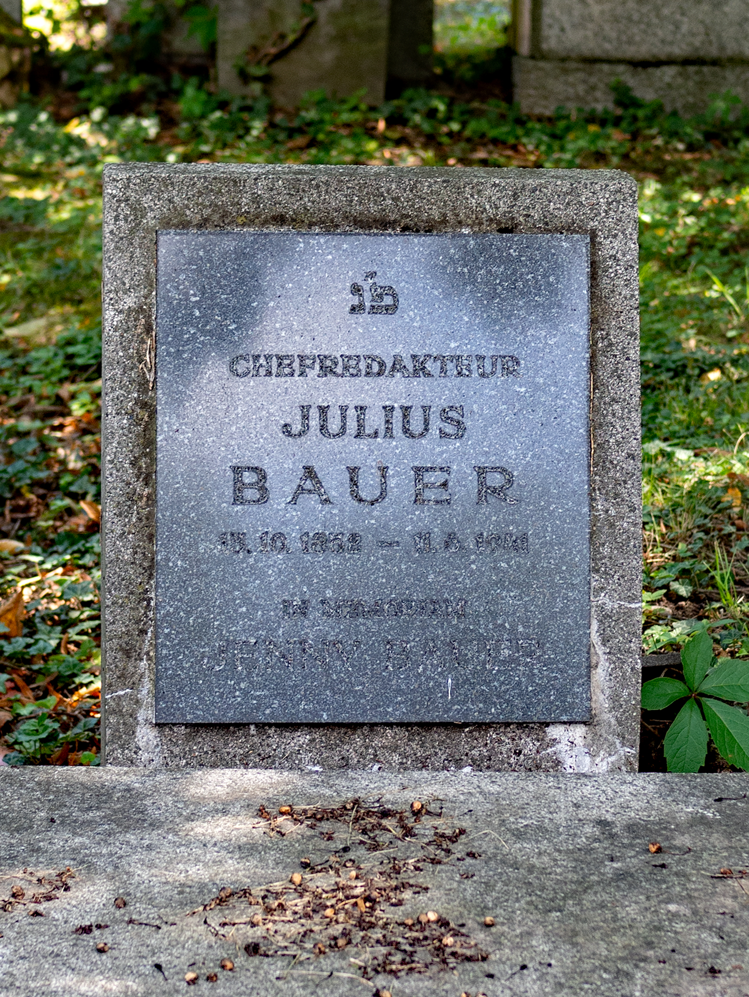 Grave of the librettist and journalist Julius Bauer (1853–1941) in the New Jewish part of the Vienna Central Cemetery (9a/1/13).